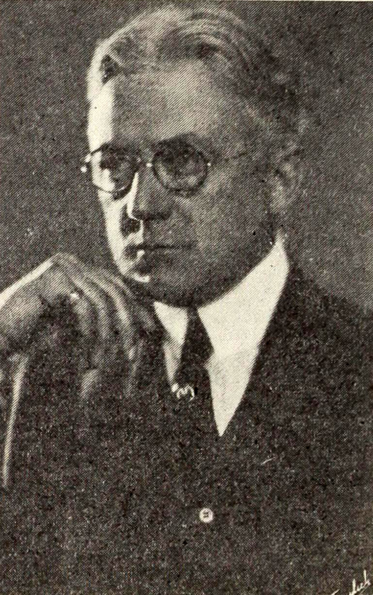 Promotional photo